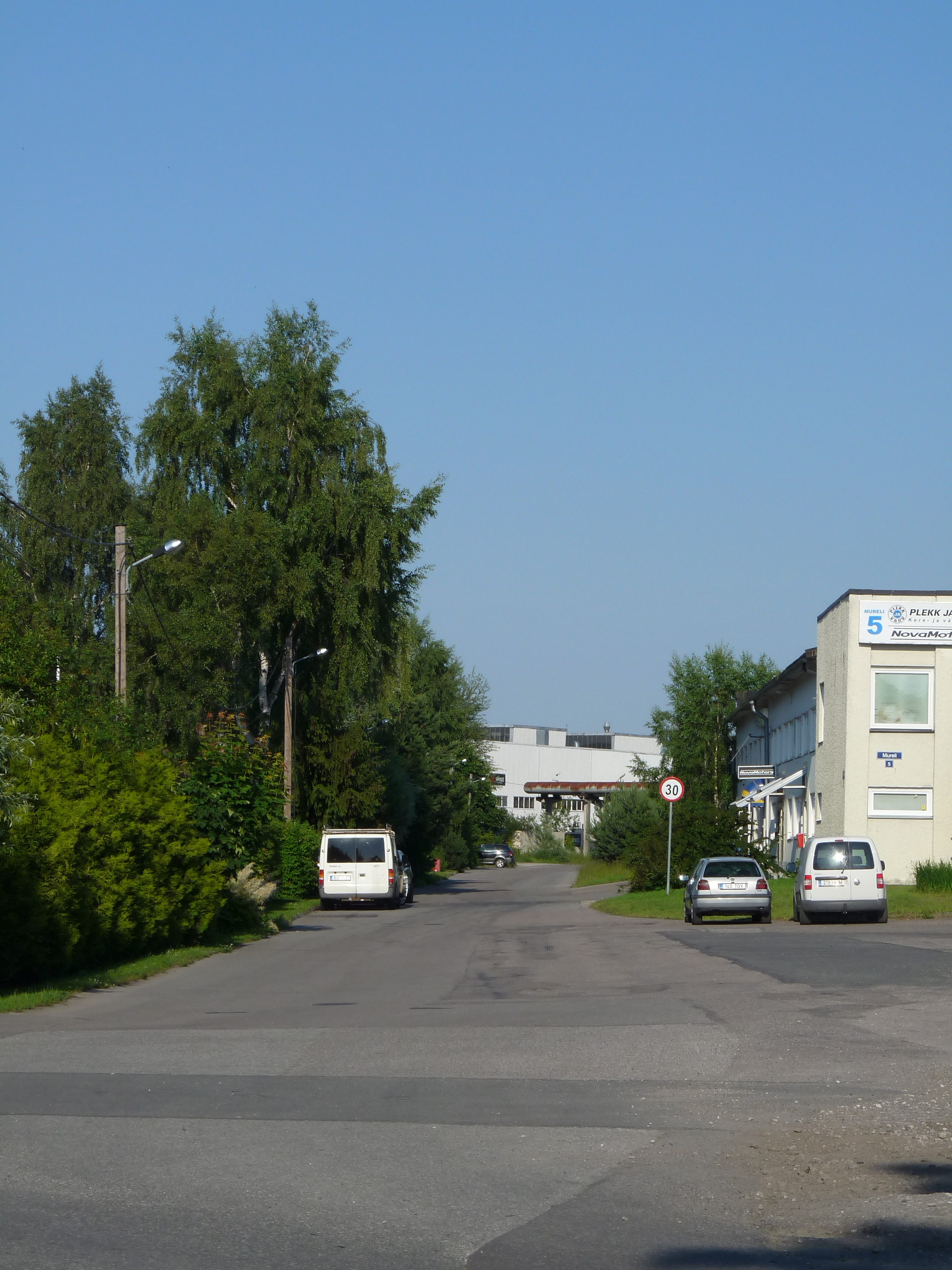 Mureli street in Tallinn, Estonia